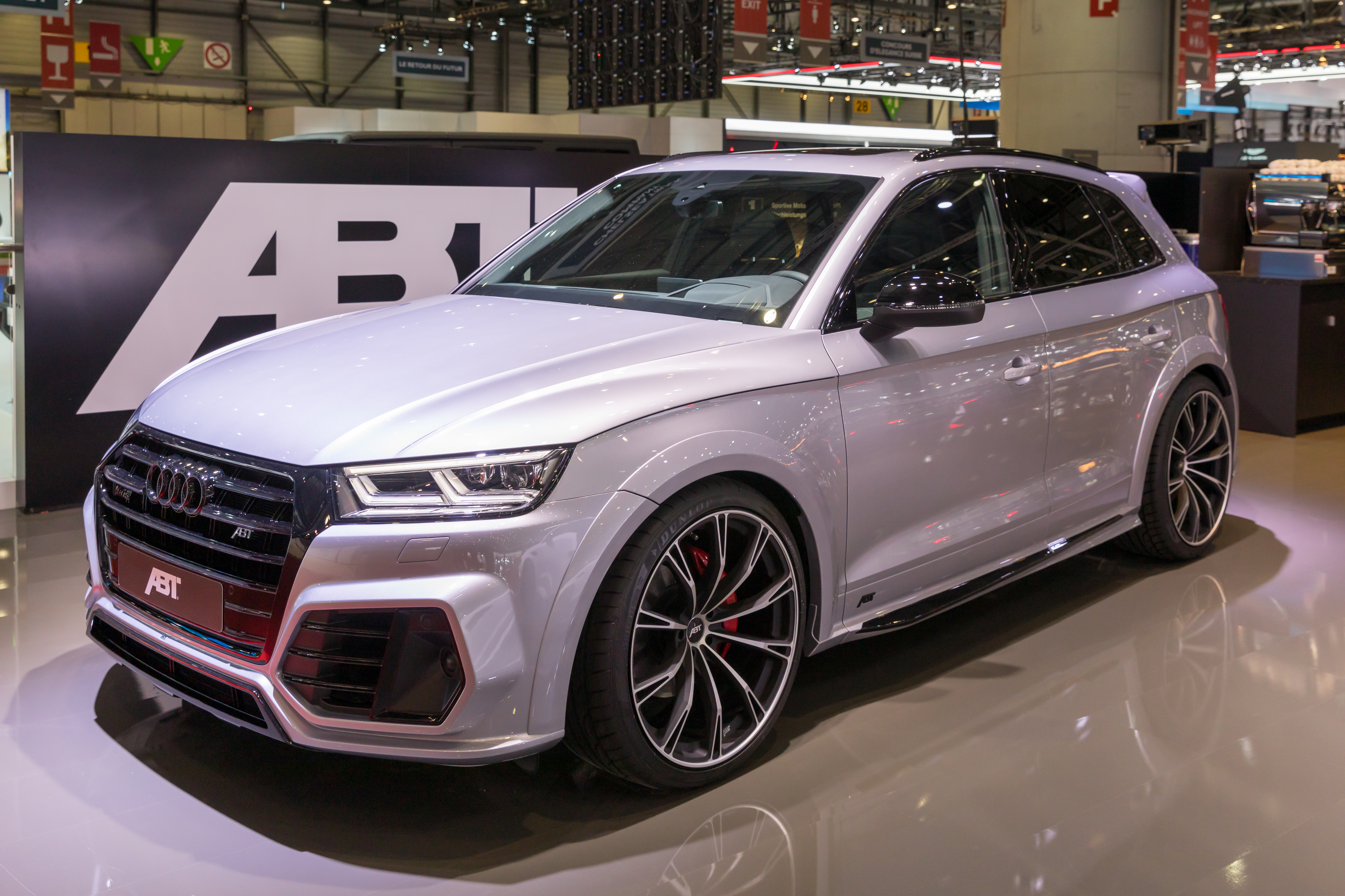 Geneva International Motor Show 2018